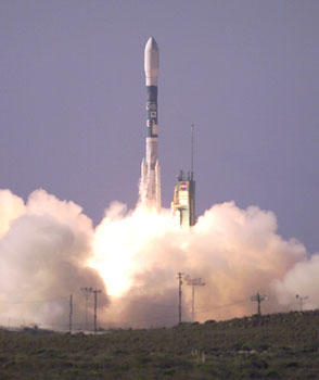 Delta II rocket carrying the SAC-C, Munin and Earth Observing-1 satellites